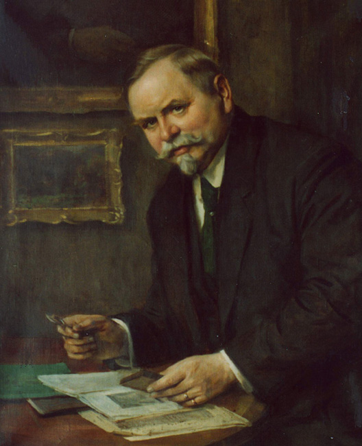 Czech builder and art collector František Jureček from Ostrava.